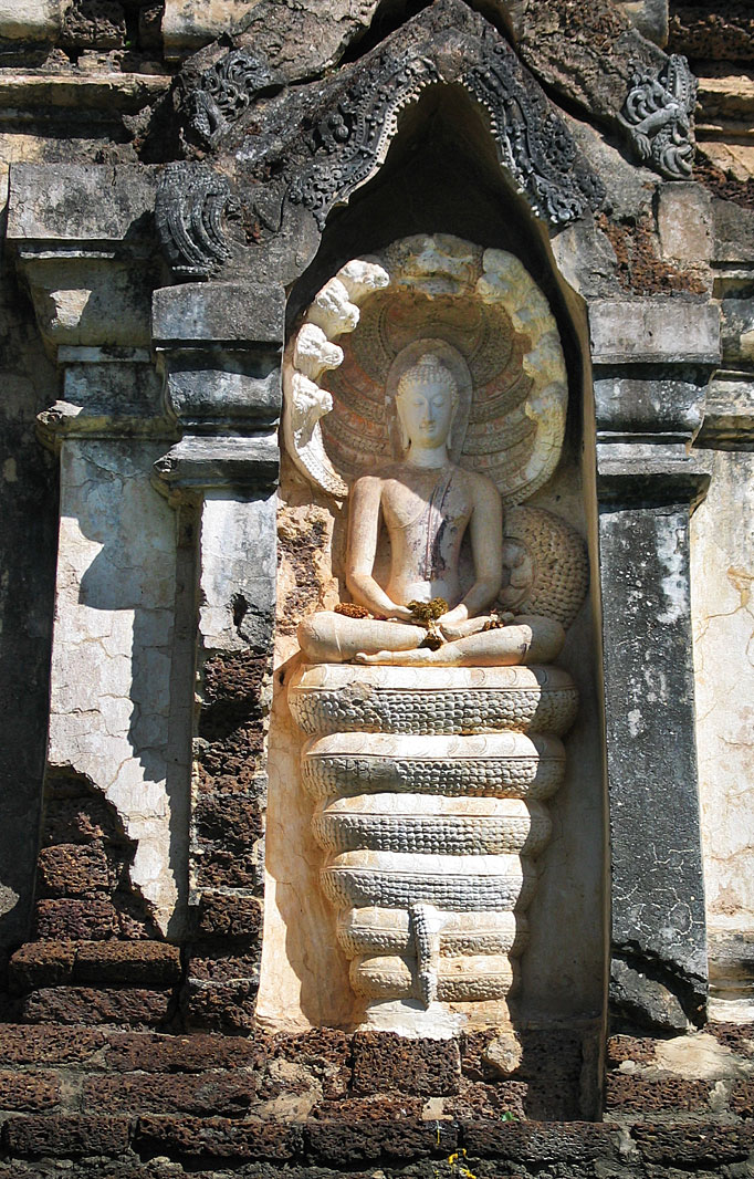 Meditating Buddha, "Protected by Mucalinda", Sukhothai style, Wat Chedi Chet Thaeo, Si Satchanalai, Thailand